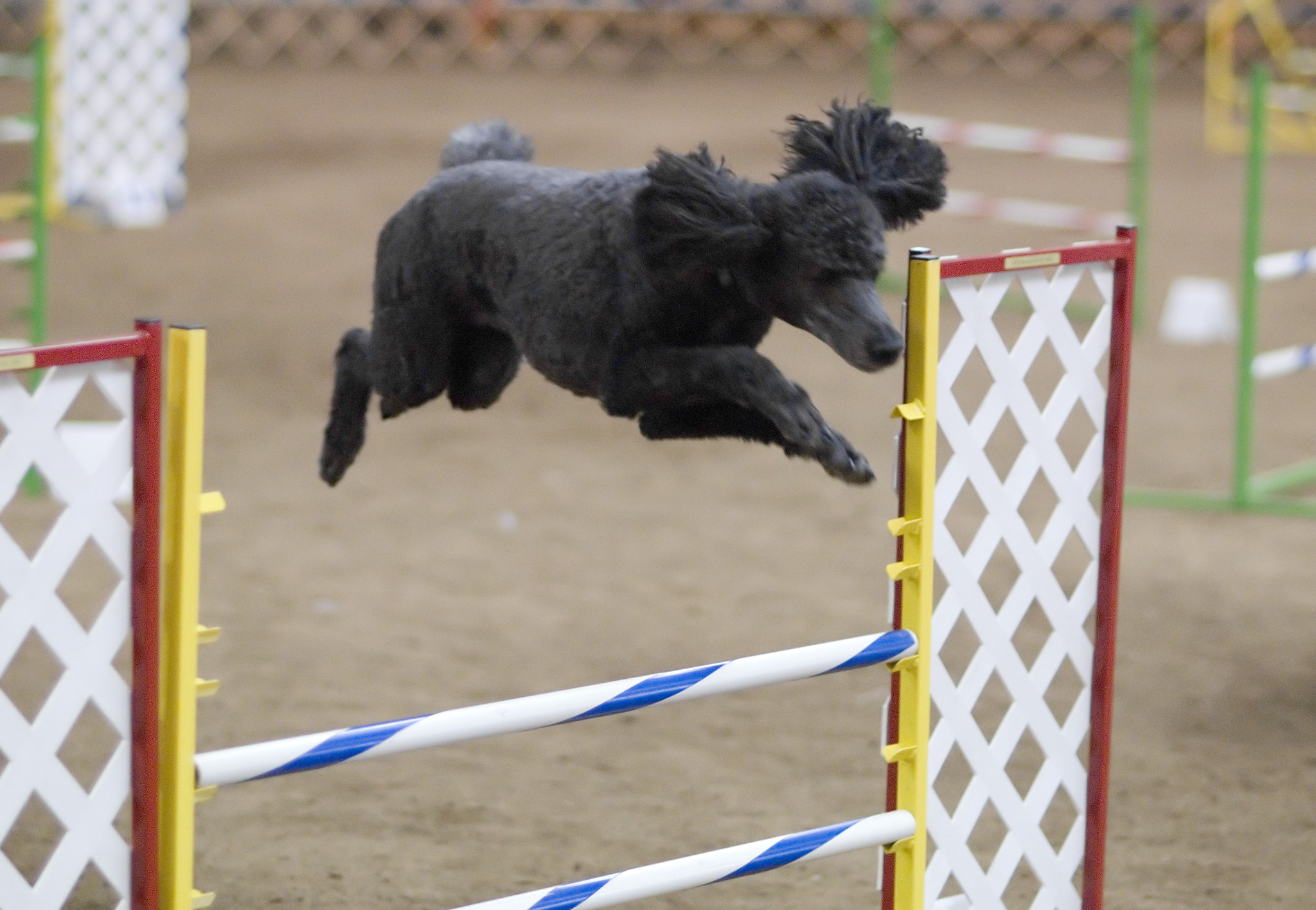 A "blue"-coloured Poodle during an agility competition.